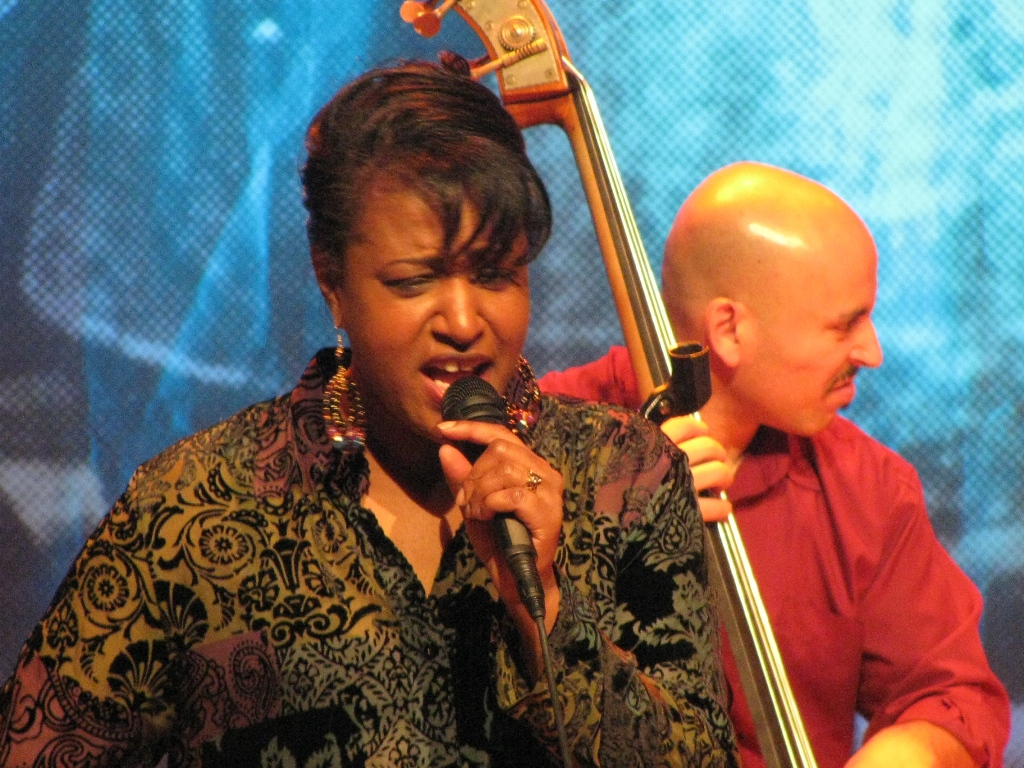 She sings, writes, produces, processes and performed with great artists of jazz